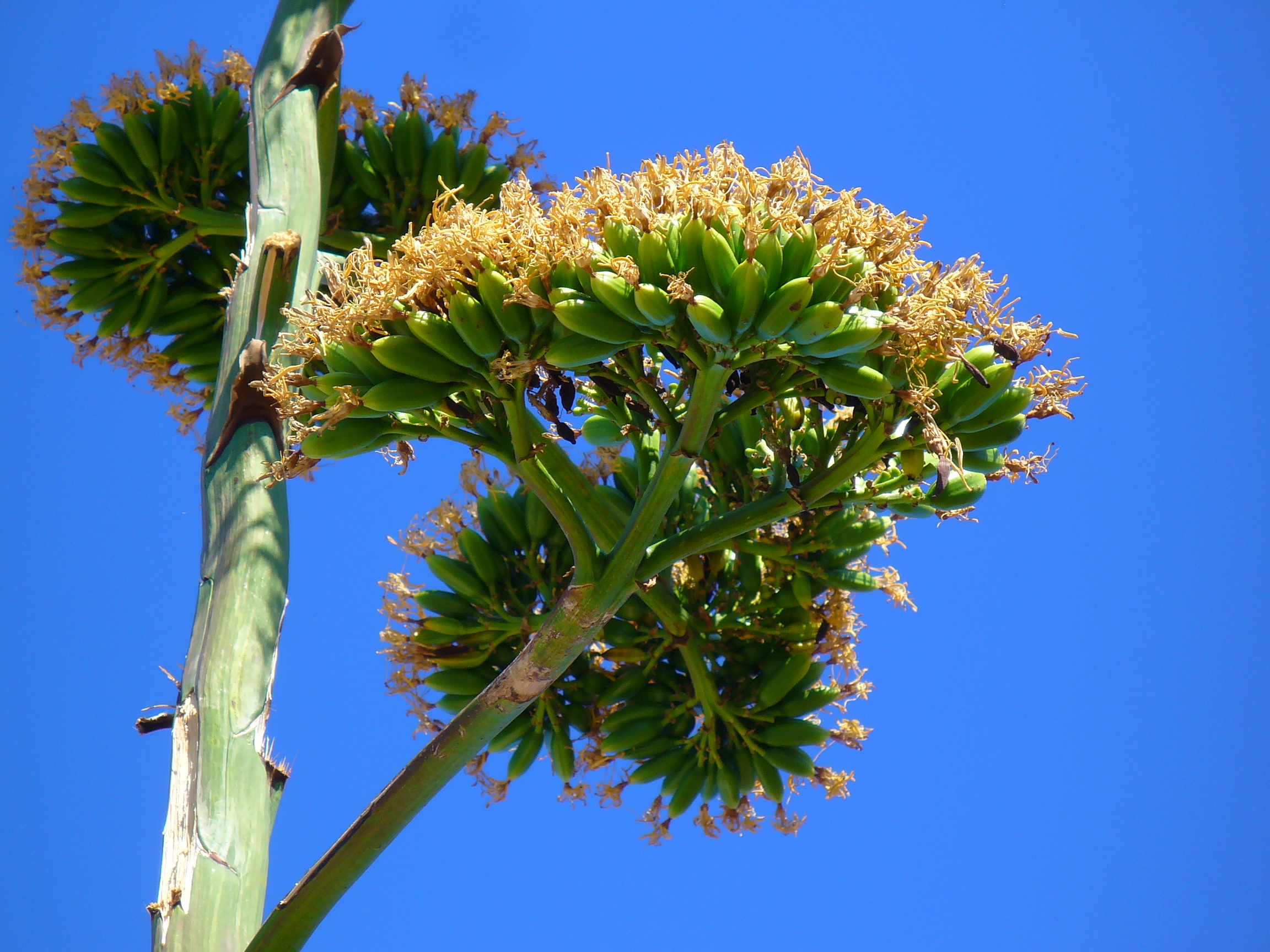 Agave americana, Agavaceae, Century Plant, Maguey, fruits. Fitou, France.